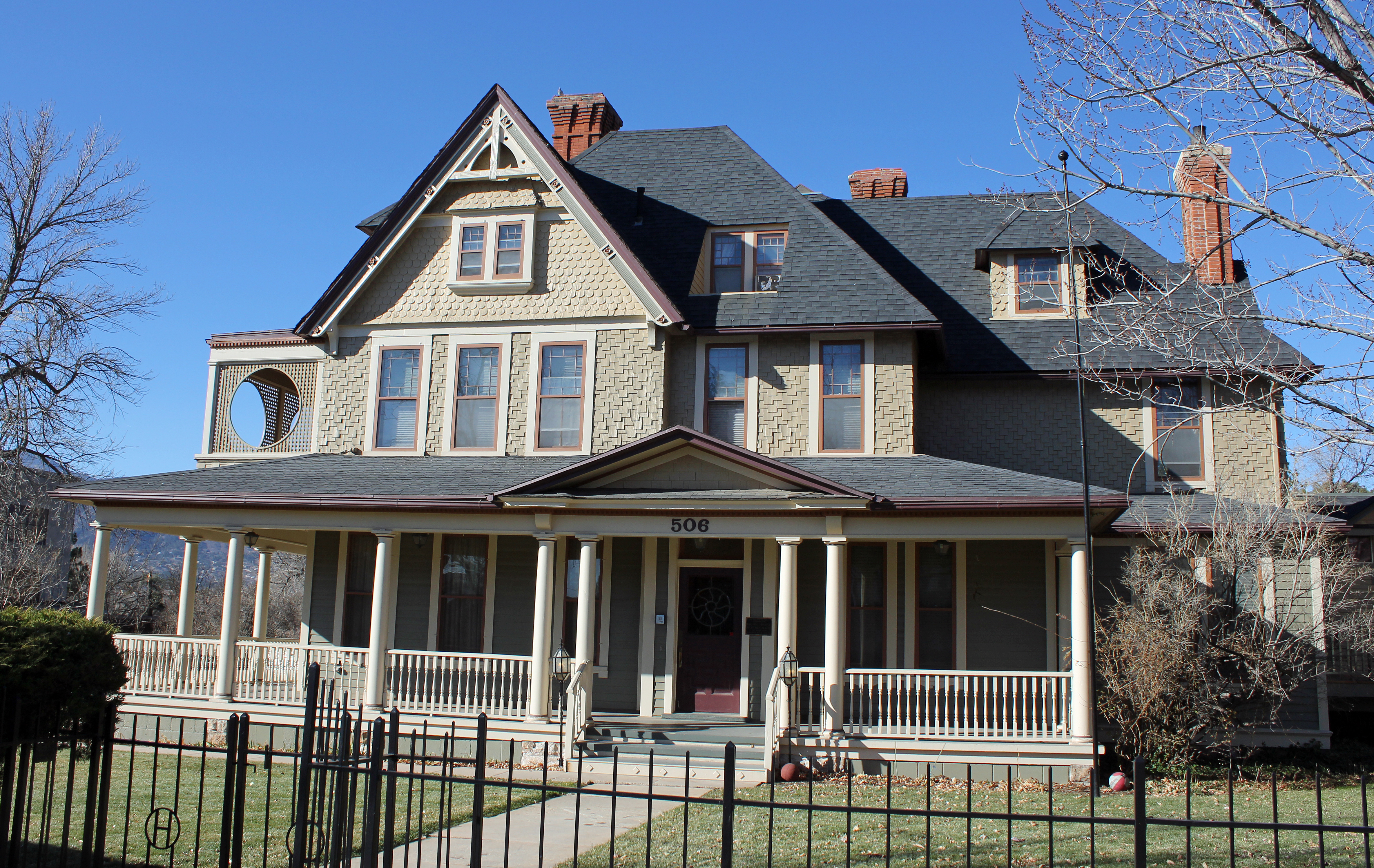 The Judson Moss Bemis House, located at 506 North Cascade Avenue in Colorado Springs, Colorado. The house is listed on the National Register of Historic Places.